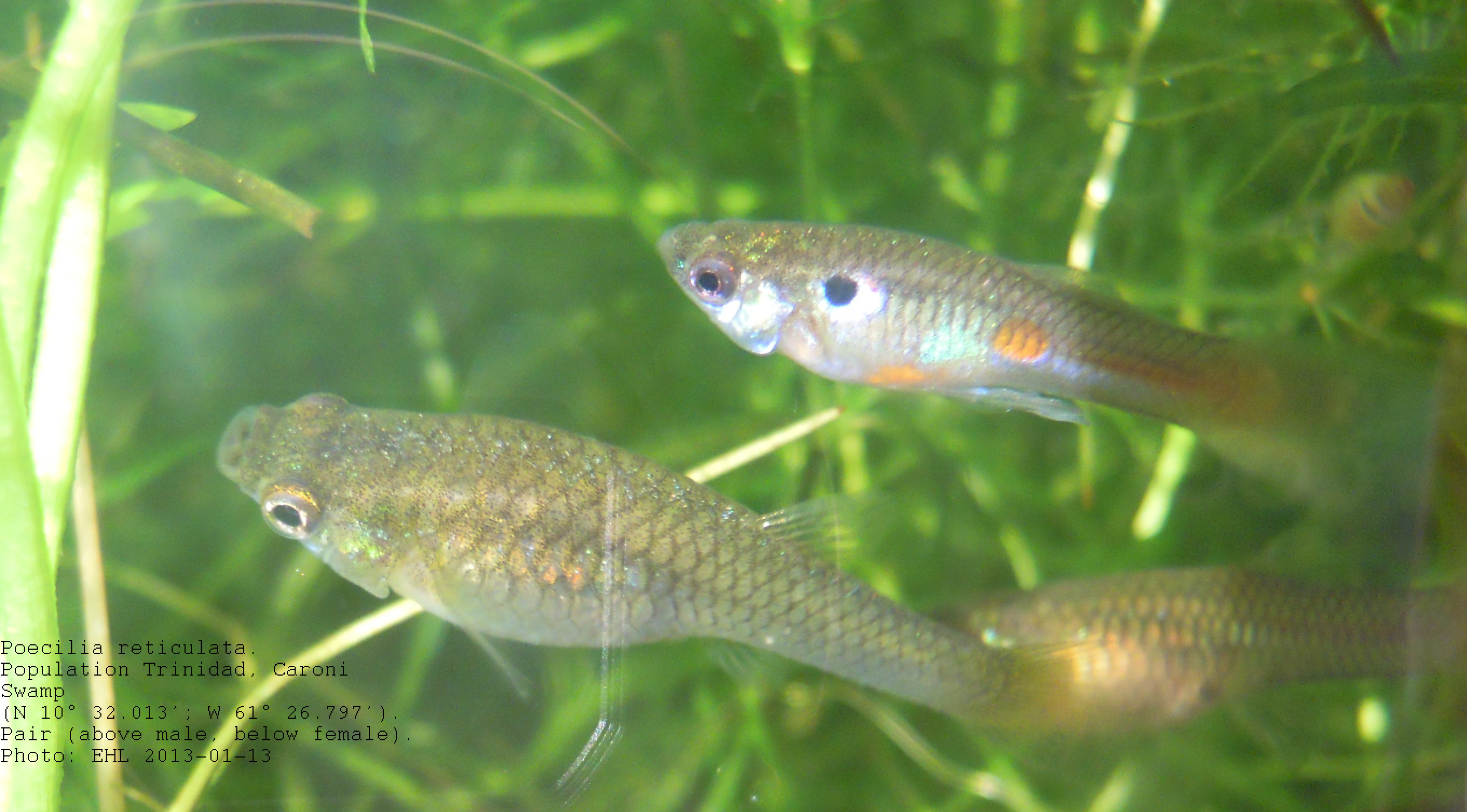 Guppy, Poecilia reticulata. Wild type (strain after approx. 4 years of random breeding in the aquarium), population Trinidad, Caroni Swamp (CS; N 10° 32.013’; W 61° 26.797’; see Schories et al., Description of Poecilia (Acanthophacelus) obscura n. sp., (Teleostei: Poeciliidae), a new guppy species from western Trinidad, with remarks on P. wingei and the status of the “Endler’s guppy”, Table.1, online: ). Pair (above male, below female). Photo: EHL 13.01.2013